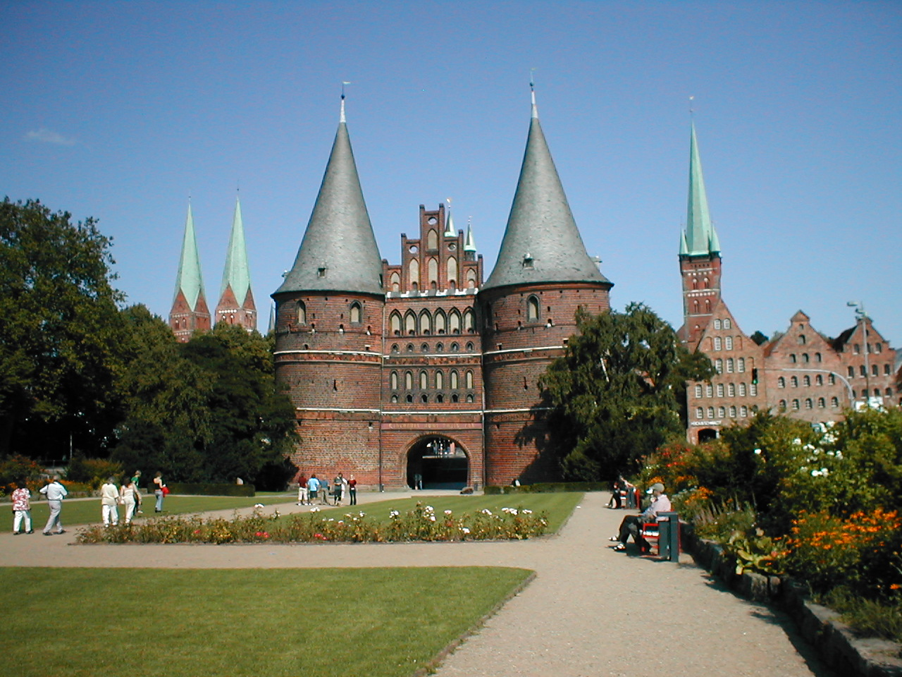 The Holstentor in Lübeck, Germany.